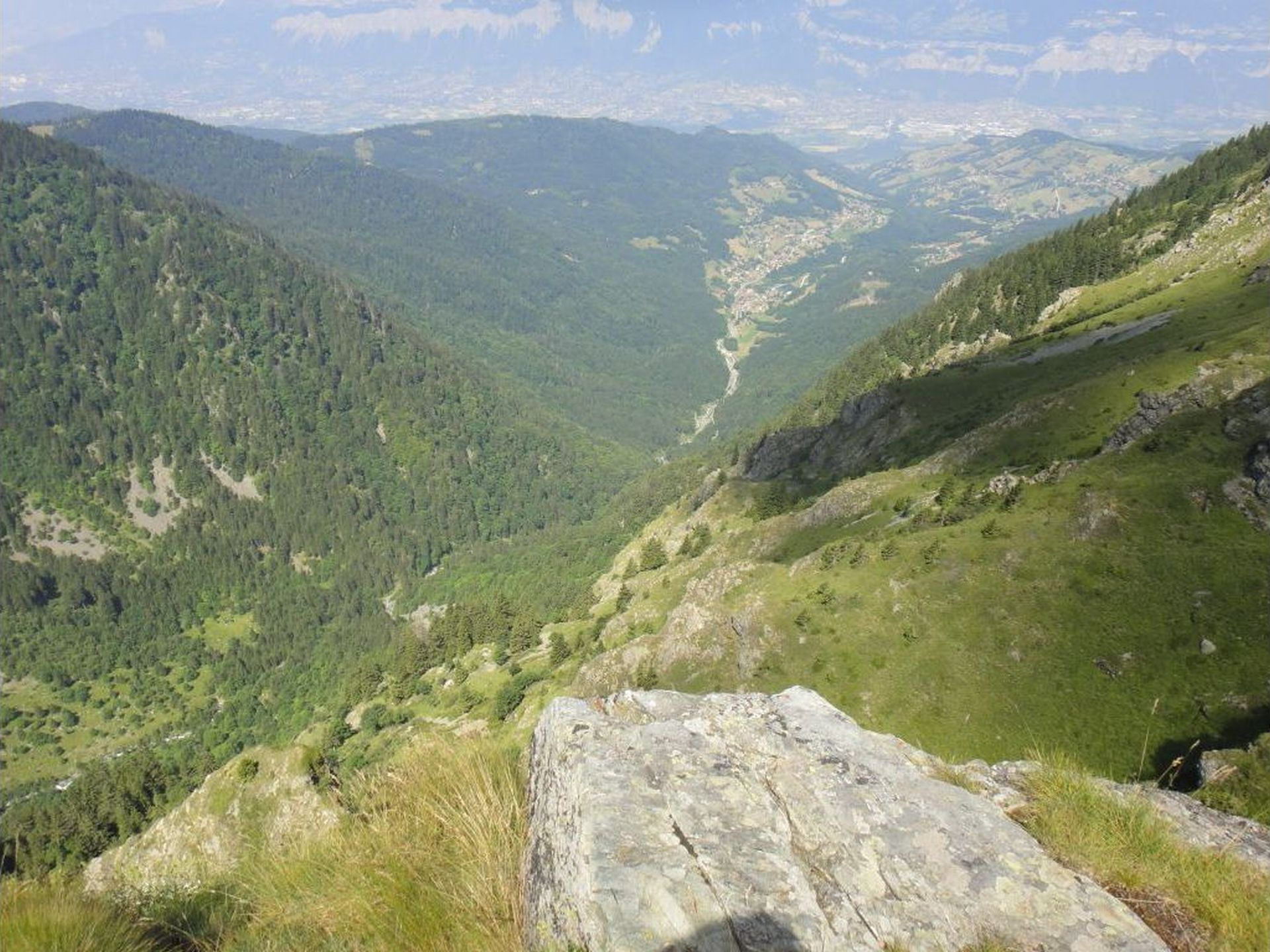 View of French village Saint Mury-Monteymond as seen from Refuge Jean Collet